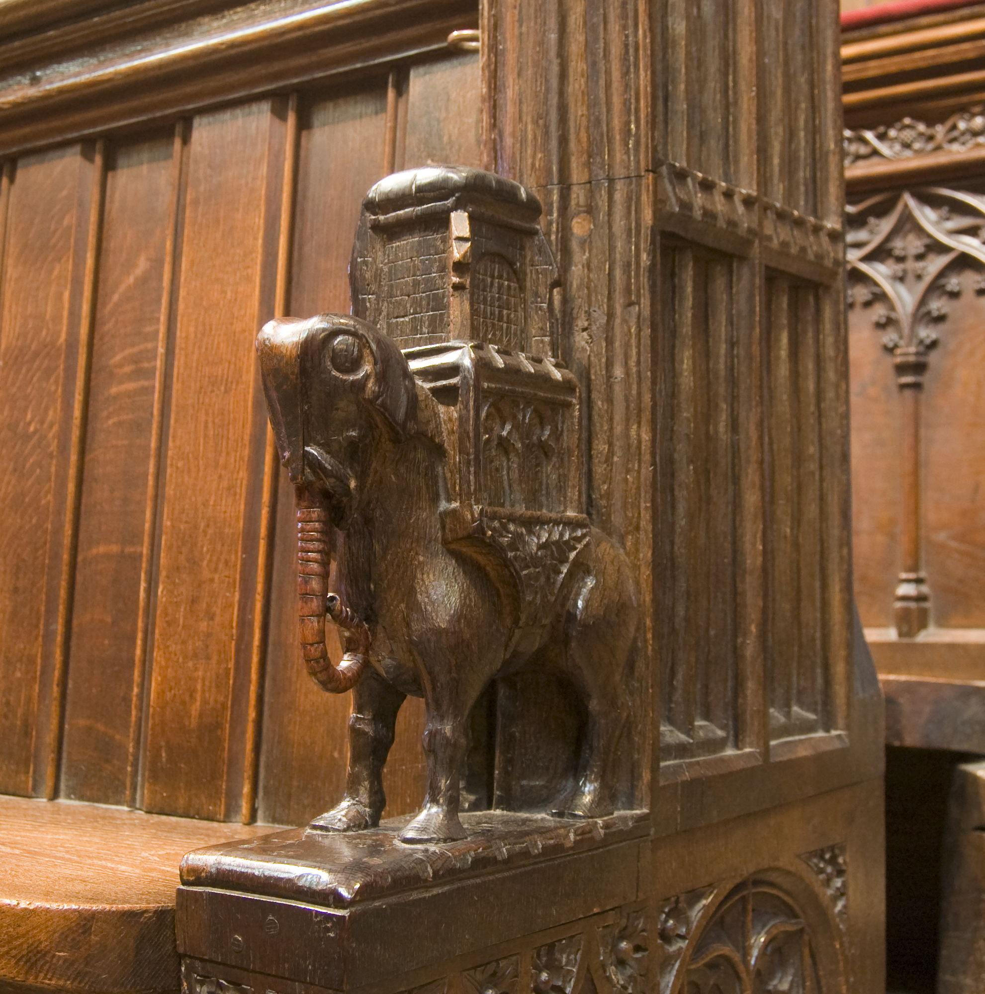 Carving of elephant at Chester Cathedral